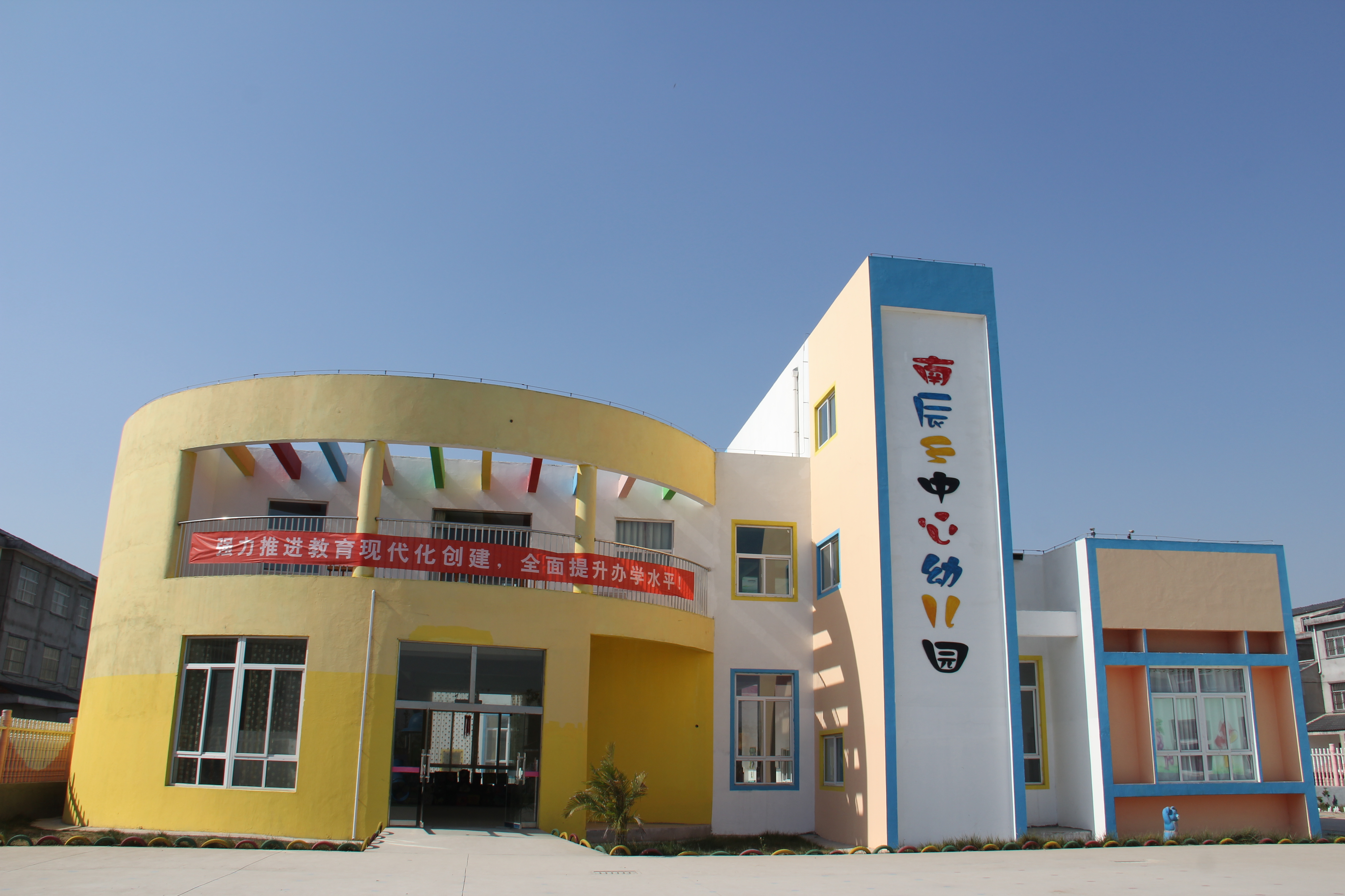 jardin nanchen